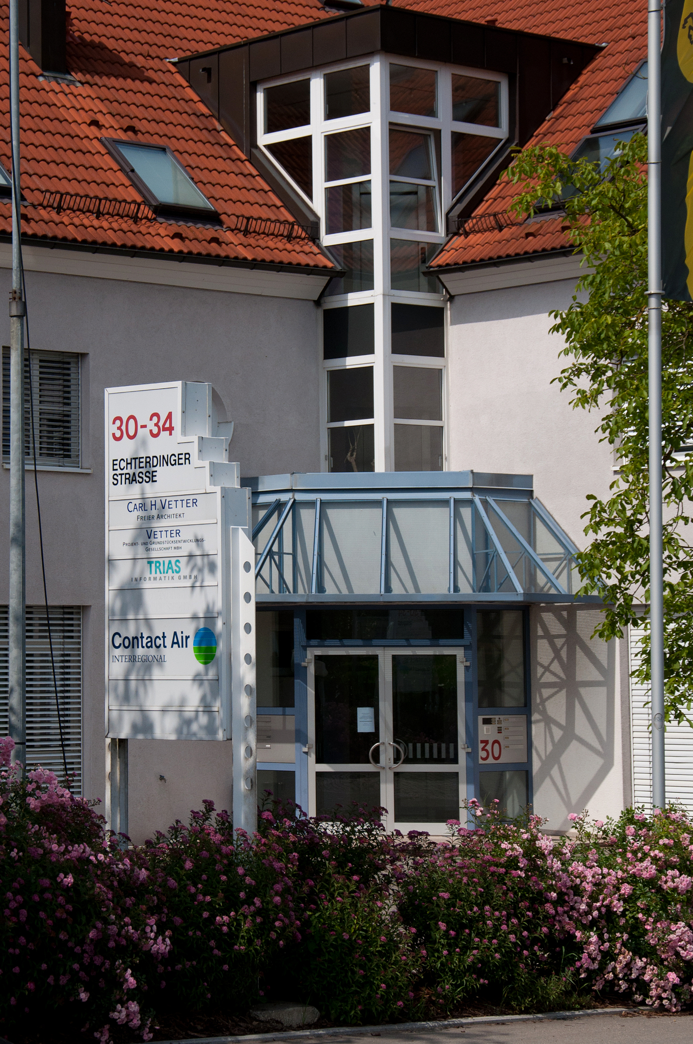 Company headquarters of Contact Air in Plieningen, Baden-Württemberg, Germany.